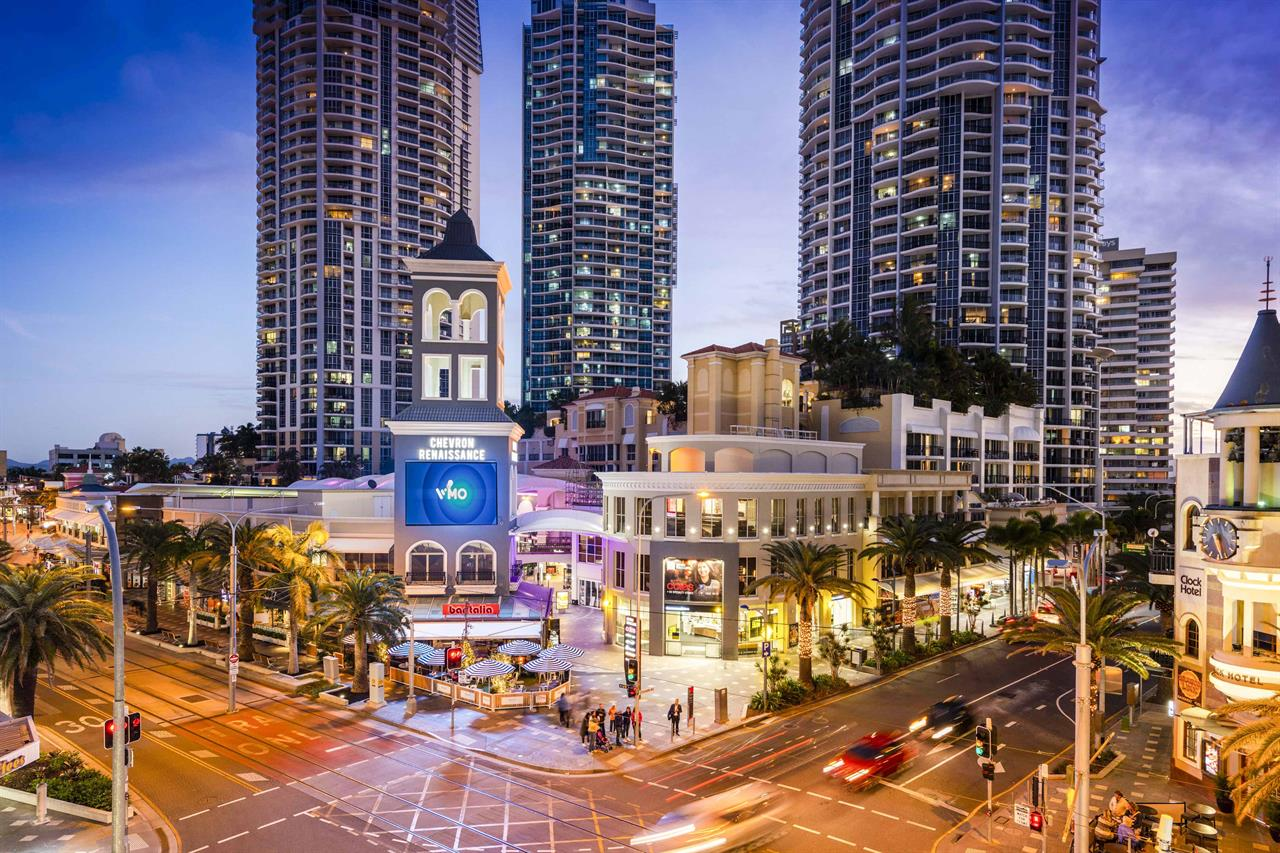 Exterior of the Chevron Renaissance Shopping Centre.